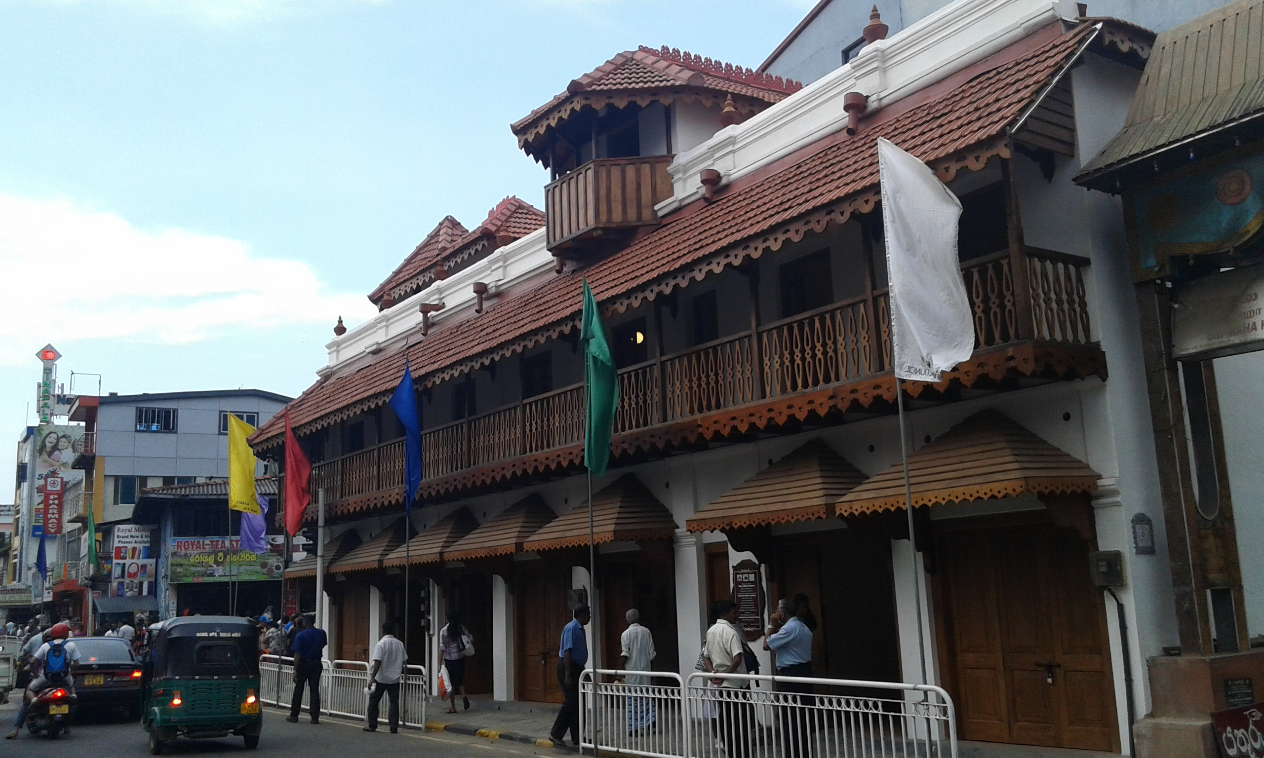 Photograph of Giragama Walauwa Kandy After Renovation - II